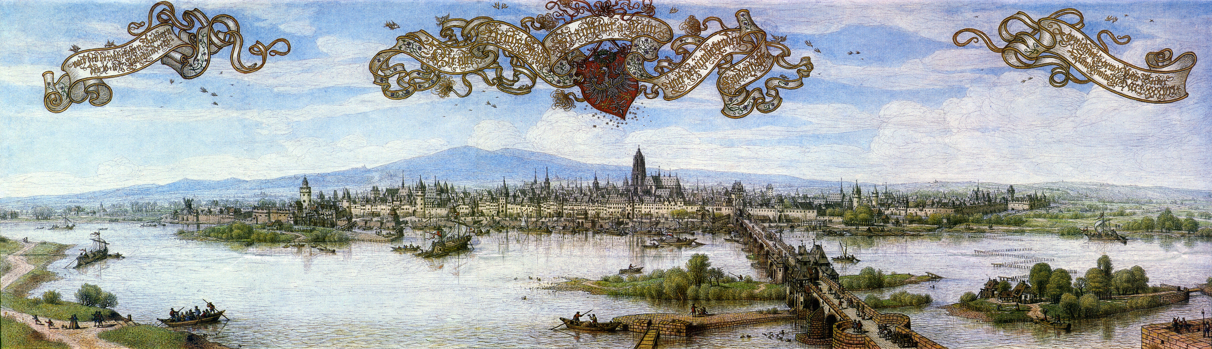 Frankfurt am Main at the beginning of the 17th century, water colour; transcript of the headline (from left to right): „according to the proven authors of the 16th + 17th century / the old / imperial city / Frankfurt a. Main / with the surrounding landscape / drawn and painted by Peter Becker Anno domini MDCCCLXXXVII“